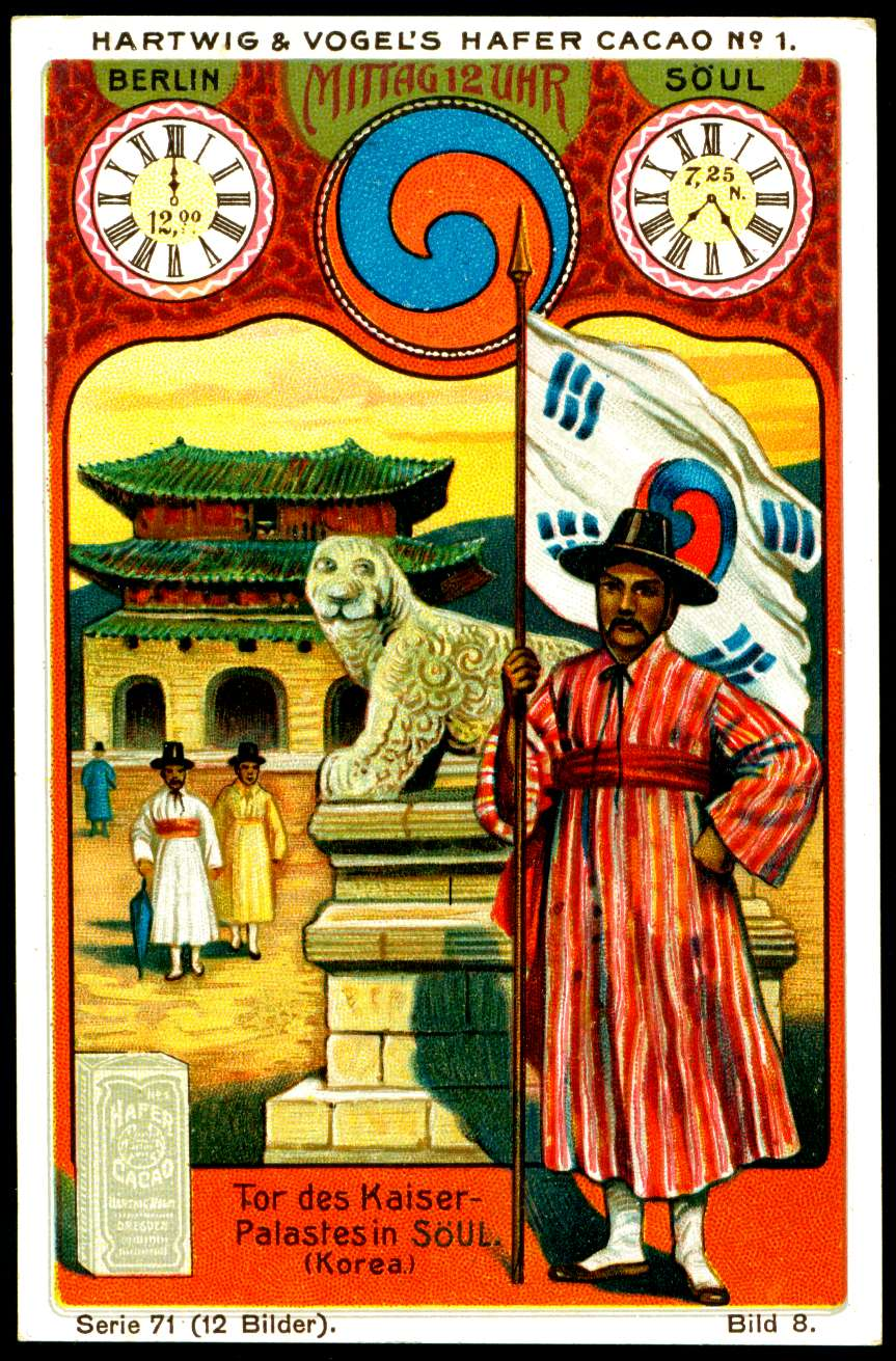 Seoul Palace represented on a collector card from Prussian chocolate maker from Dresden, Hartwig & Vogels, before 1912. This is the #8 in the serie "Scenes from Around the Word"